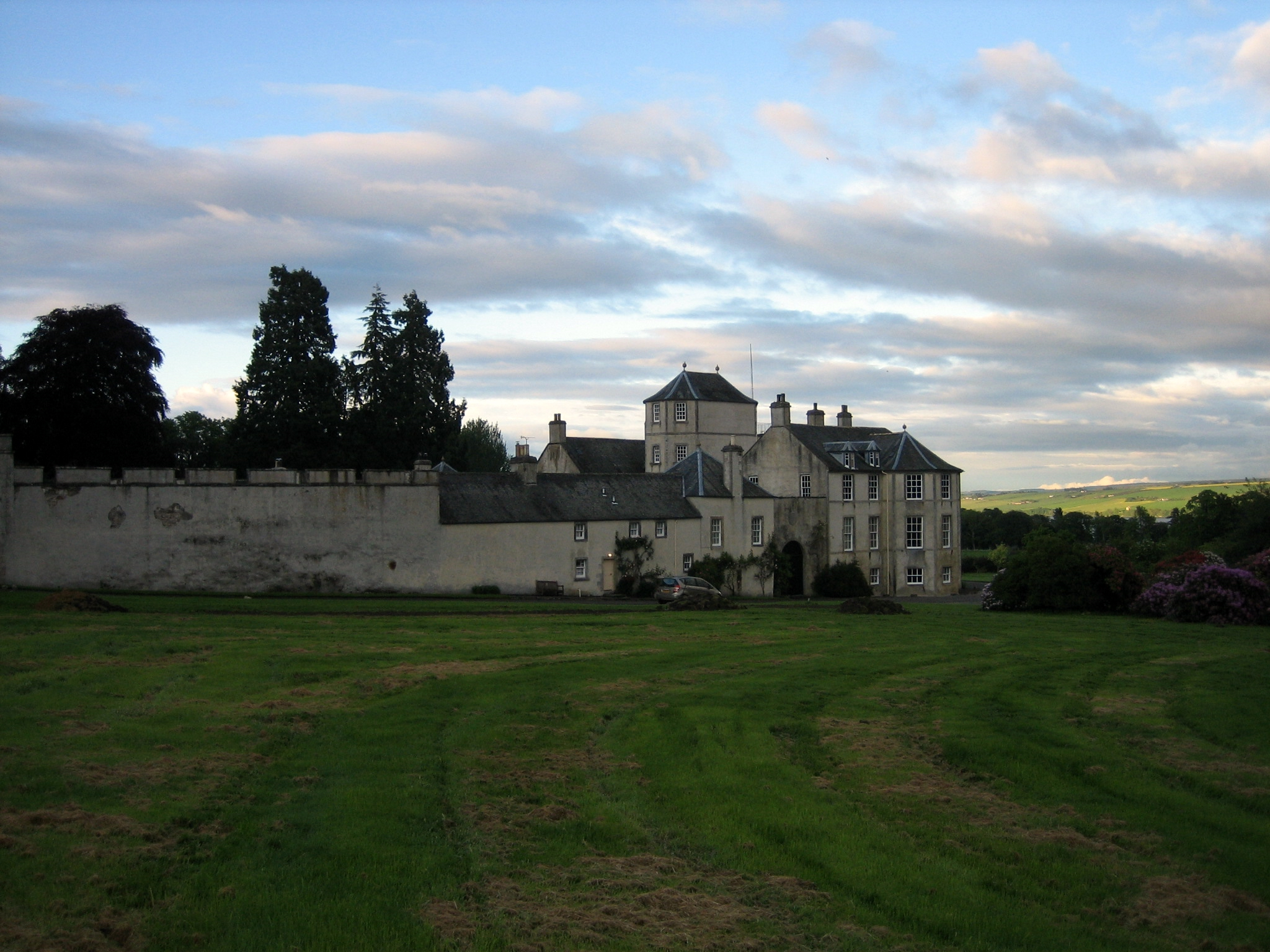 Copyright (c) 2006 Jesse Scott Munroe. Permission is granted to copy, distribute and/or modify this document under the terms of the GNU Free Documentation License, Version 1.2 or any later version published by the Free Software Foundation; with no Invariant Sections, no Front-Cover Texts, and no Back-Cover Texts. A copy of the license is included in the section entitled "GNU Free Documentation License"